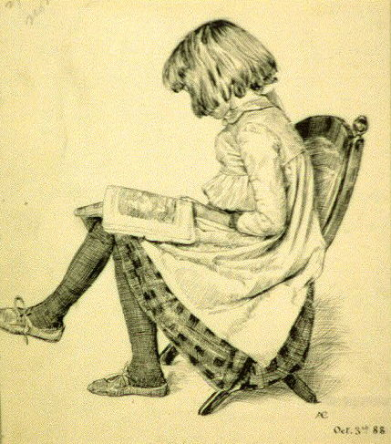 For a Harpers Bazaar story by Elizabeth Eggleston Seelye